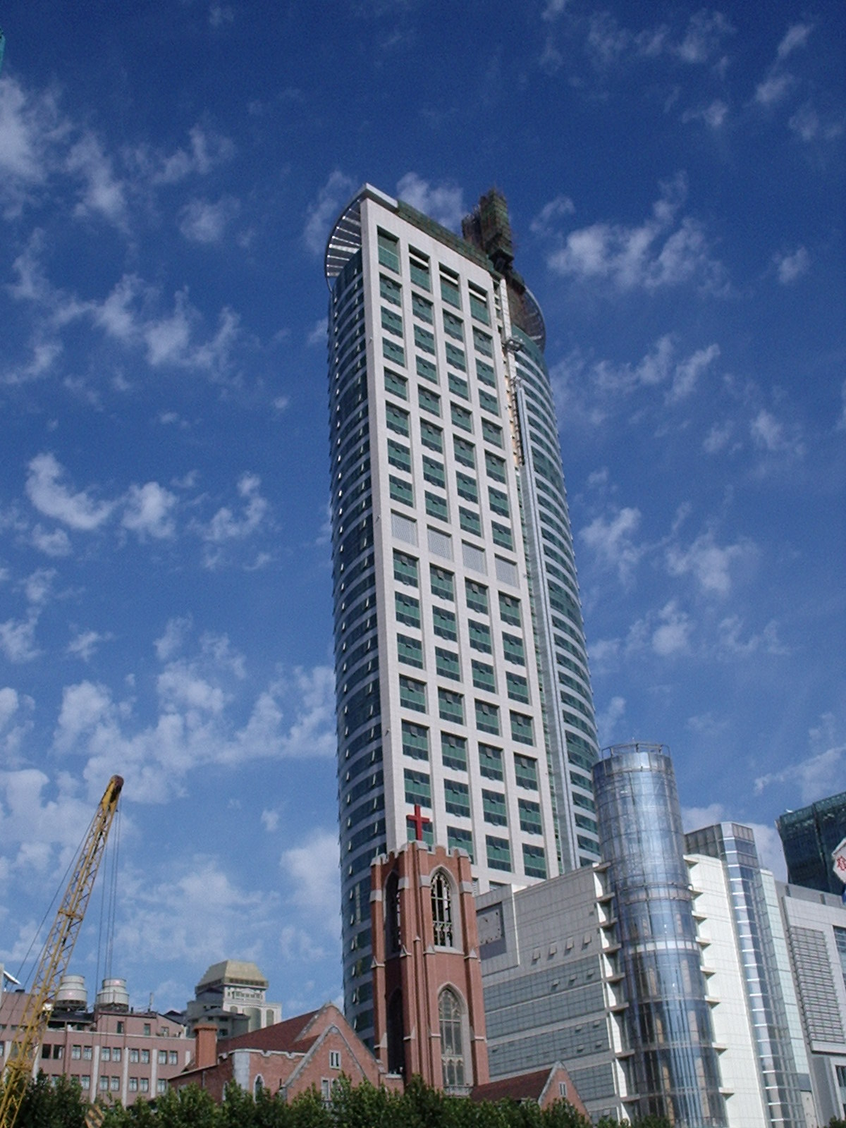 The church in the picture is Mu'en Protestant Church, Shanghai, built in 1887. I found the contrast between the two buildings interesting, hence the photograph.